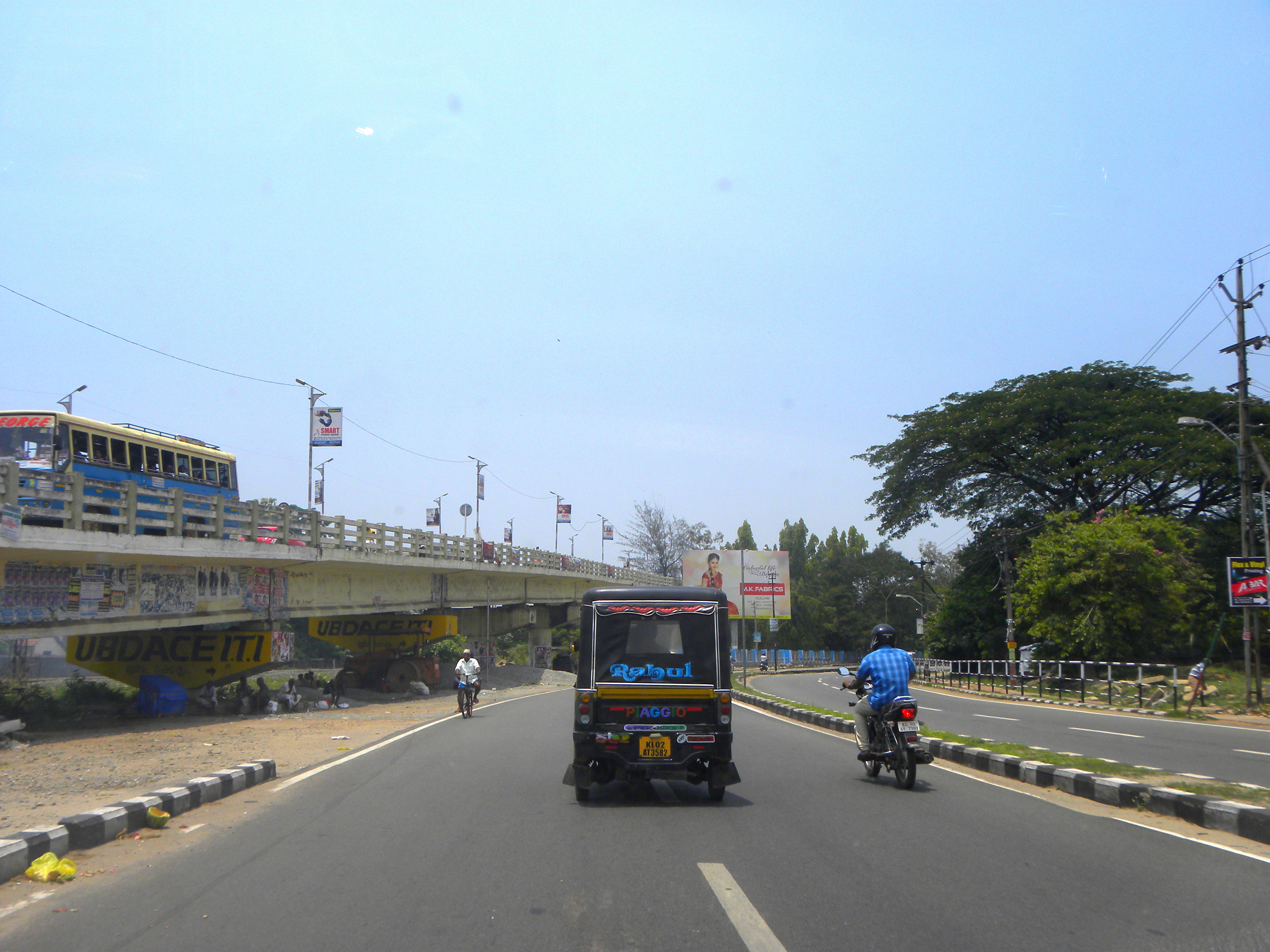 The existing NH-66 road stretch between Chinnakada and Polayathode Kappalandimukku Jn. is known as "Model Road" of Kollam city.